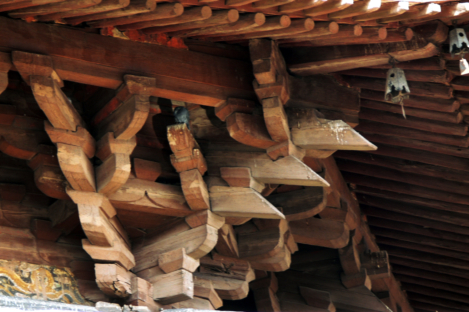 Fogongsi bracket, showing ang 佛宮寺釋迦塔的昂